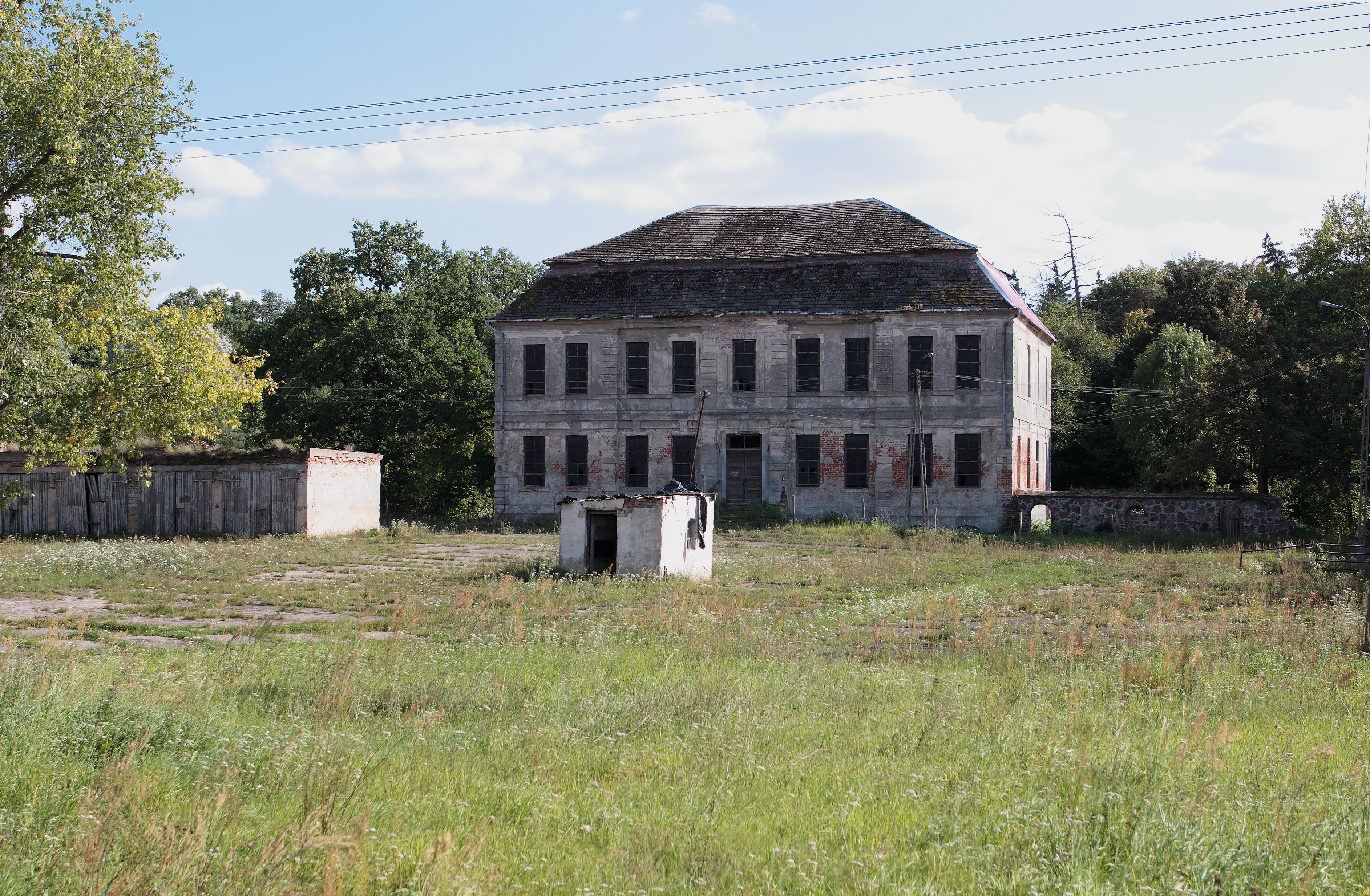 Żubrów - palace, XVII, 1800